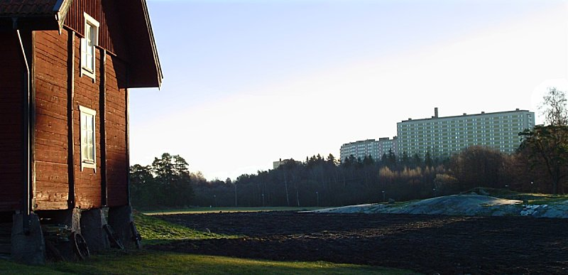 Hägernäs, Täby outside Stockholm, Sweden, with Rönninge by in the foreground